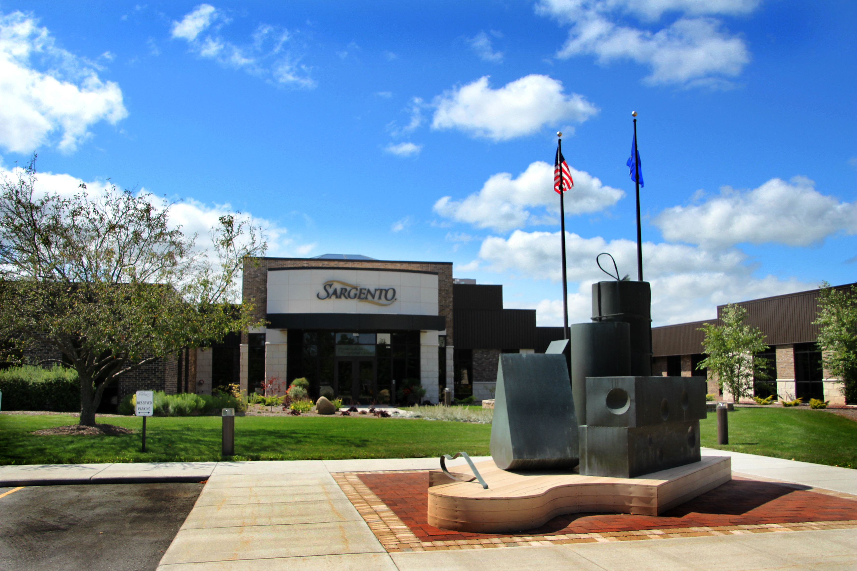 environment shot